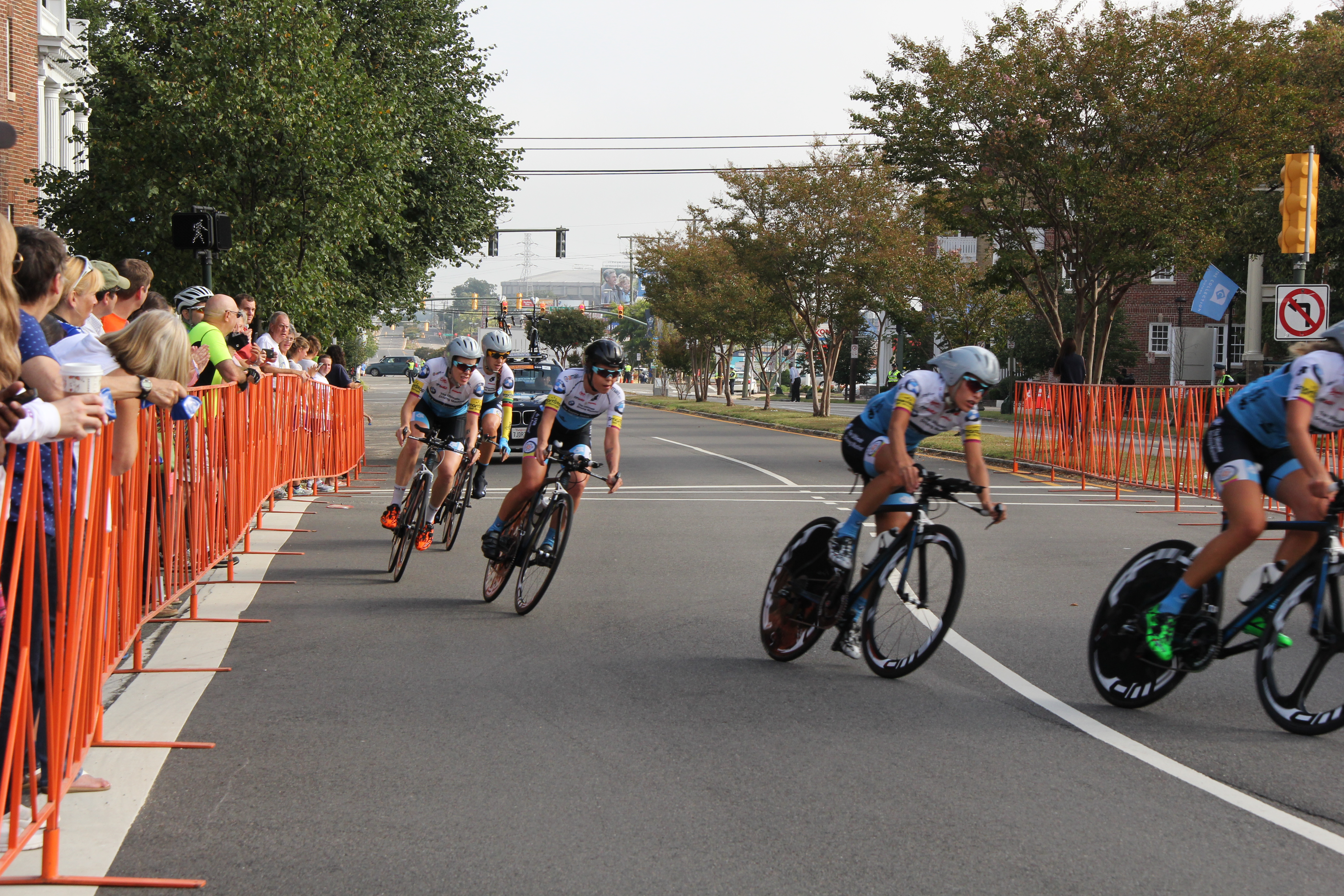 The world has come to Richmond. Welcome! Bienvenidos! Willkommen! 2015 UCI Road World Championships, in Richmond, United States